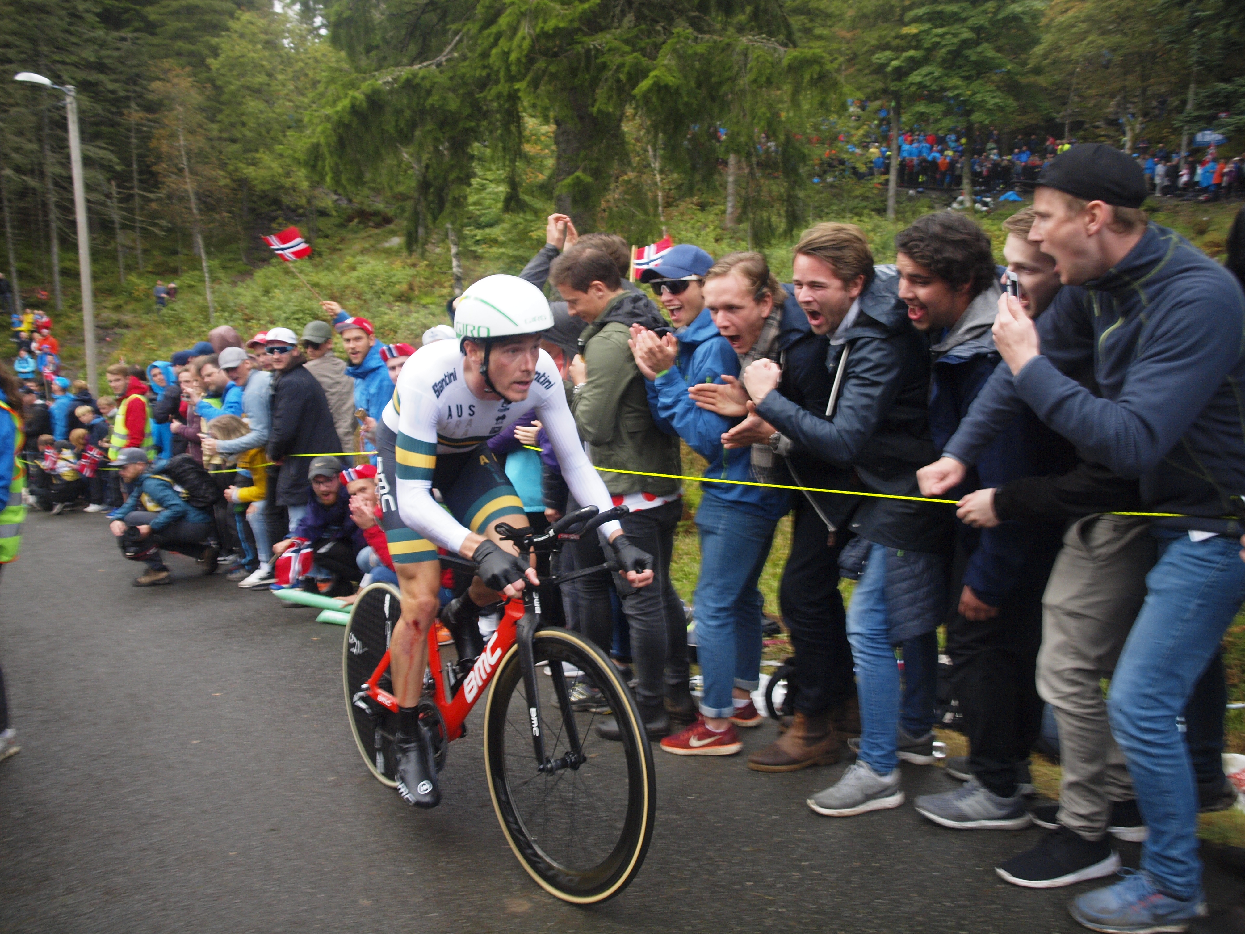 Rohan Dennis at the 2017 UCI World Championships